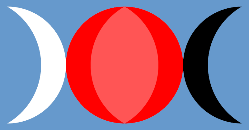 Triple Goddess Symbol, composed of waxing crescent, full moon, and waning crescent (colored version). Uses symbolic colors according to Robert Graves: "...the New Moon is the white goddess of birth and growth; the Full Moon, the red goddess of love and battle; the Old Moon, the black goddess of death and divination." See Image:Triple-Goddess-Waxing-Full-Waning-Symbol.png for a further explanation of the general symbol, or Image:Triple-Goddess-Waxing-Full-Waning-Symbol-filled.png for a monochromatic version. See Image:Three-Crescents-Diane-Poitiers.png for a different crescent symbol.